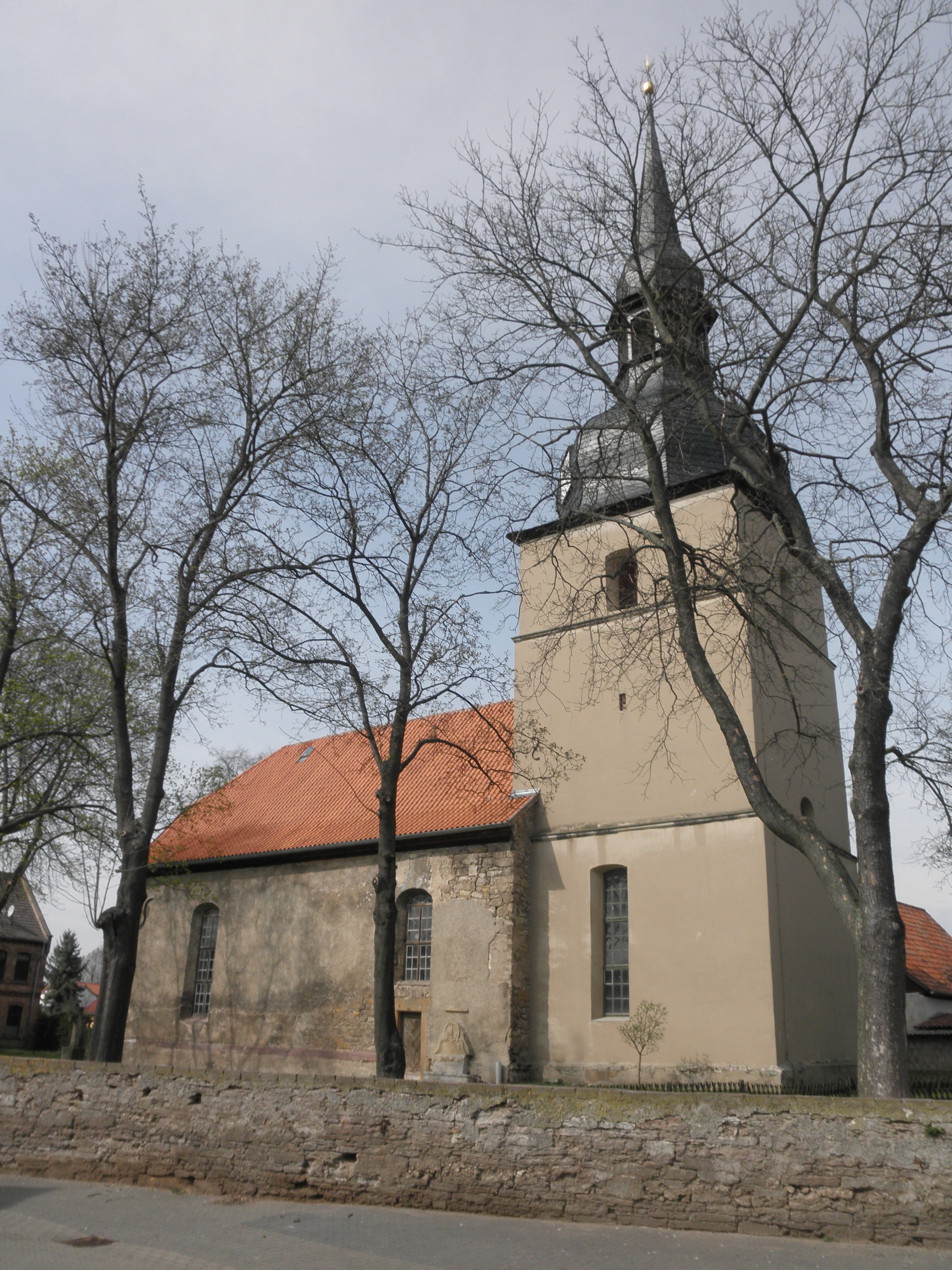 Church in Wundersleben in Thuringia